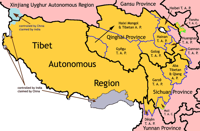 This is a map showing the Tibet Autonomous Region, the Tibetan autonomous prefectures and the Tibetan autonomous counties of the People's Republic of China.